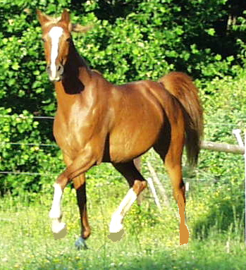 Digitally altered image of a trotting Arabian horse showing the gait called "trot" in which diagonal pairs of feet move together. The two legs with white socks are in motion.